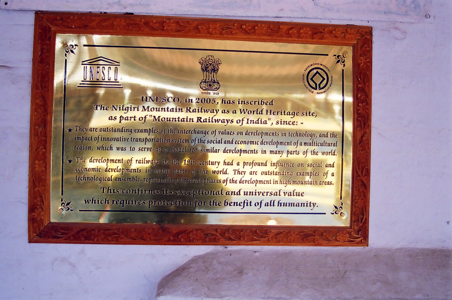 Unesco World Heritage Site plaque commemorating Nilgiris Mountain Railway at Coonoor Railway stattion